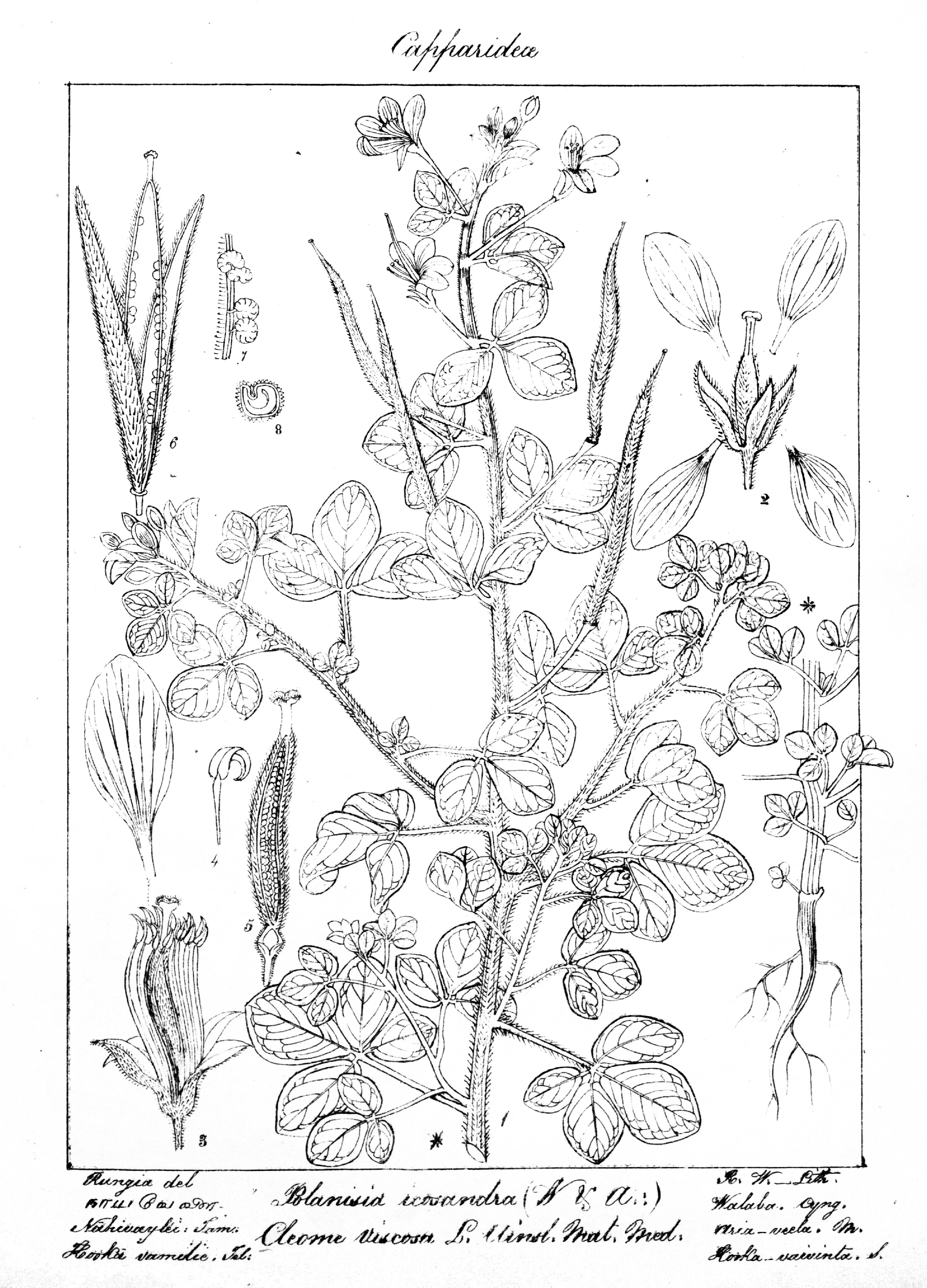 Plate 2 by Rungia from Robert Wight's Icones plantarum Indiae Orientalis